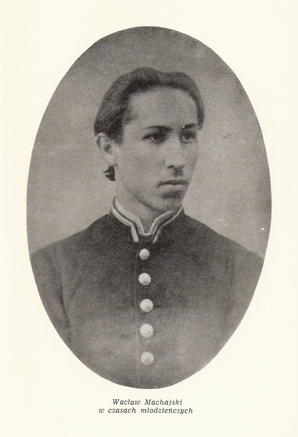 Portrait photography of Jan Wacław Machajski.